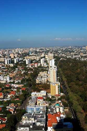 Summary: Avenida Anacaona The city's highest area of development...Sometimes Jokingly called "park avenue"...The Highest residential towers are built here. Taken from Torre Caney which is 37 floors (and Currently the Highest in the Caribbean)